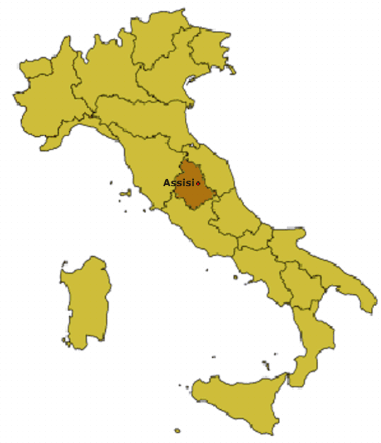 Assisi, approx. position of it in Umbria and Italy.